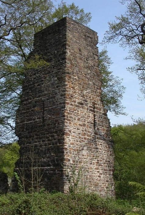 Kattenturm, Essen-Kettwig, Germany